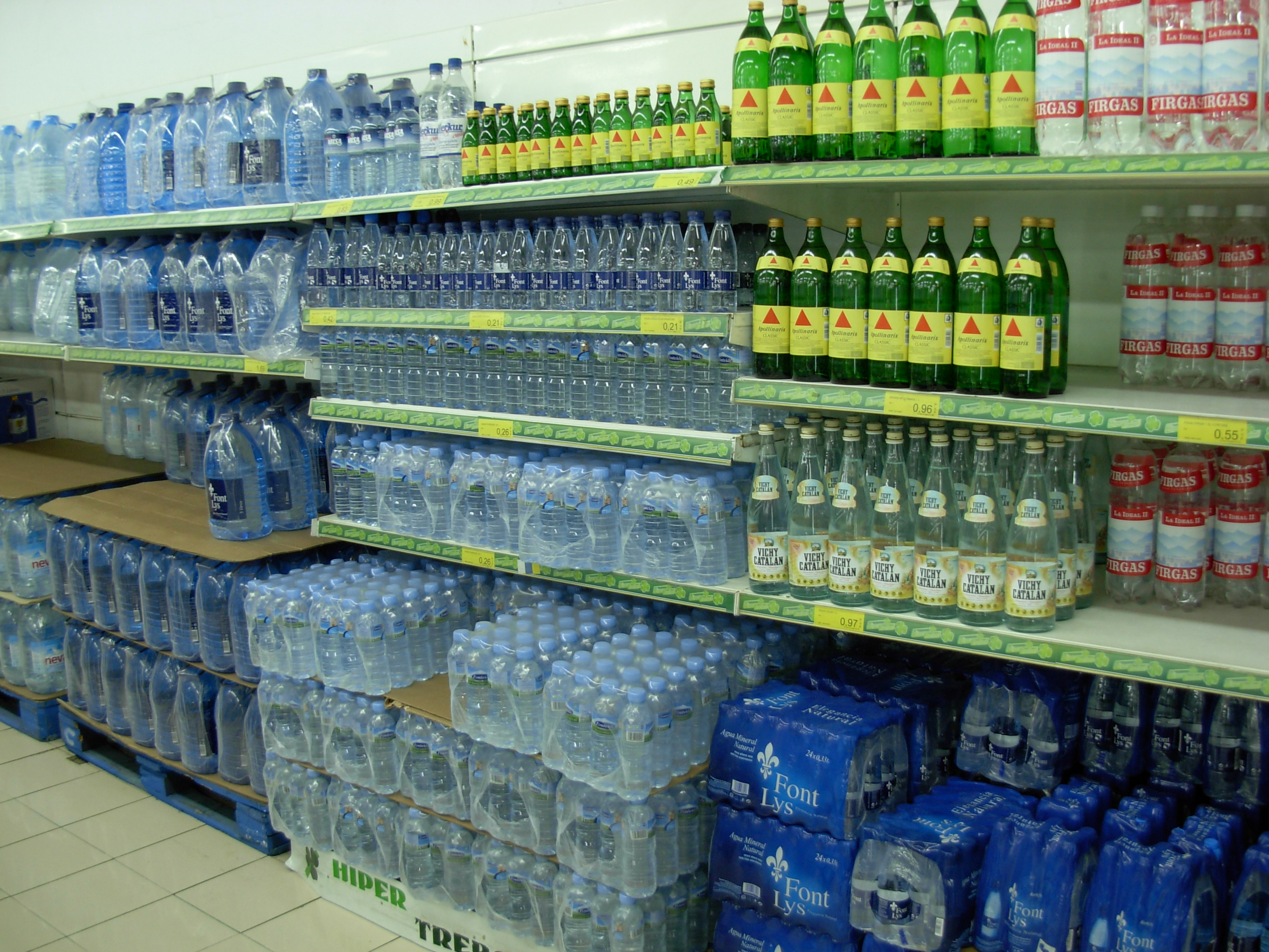 Selection of mineral waters, Spain, Tenerife.